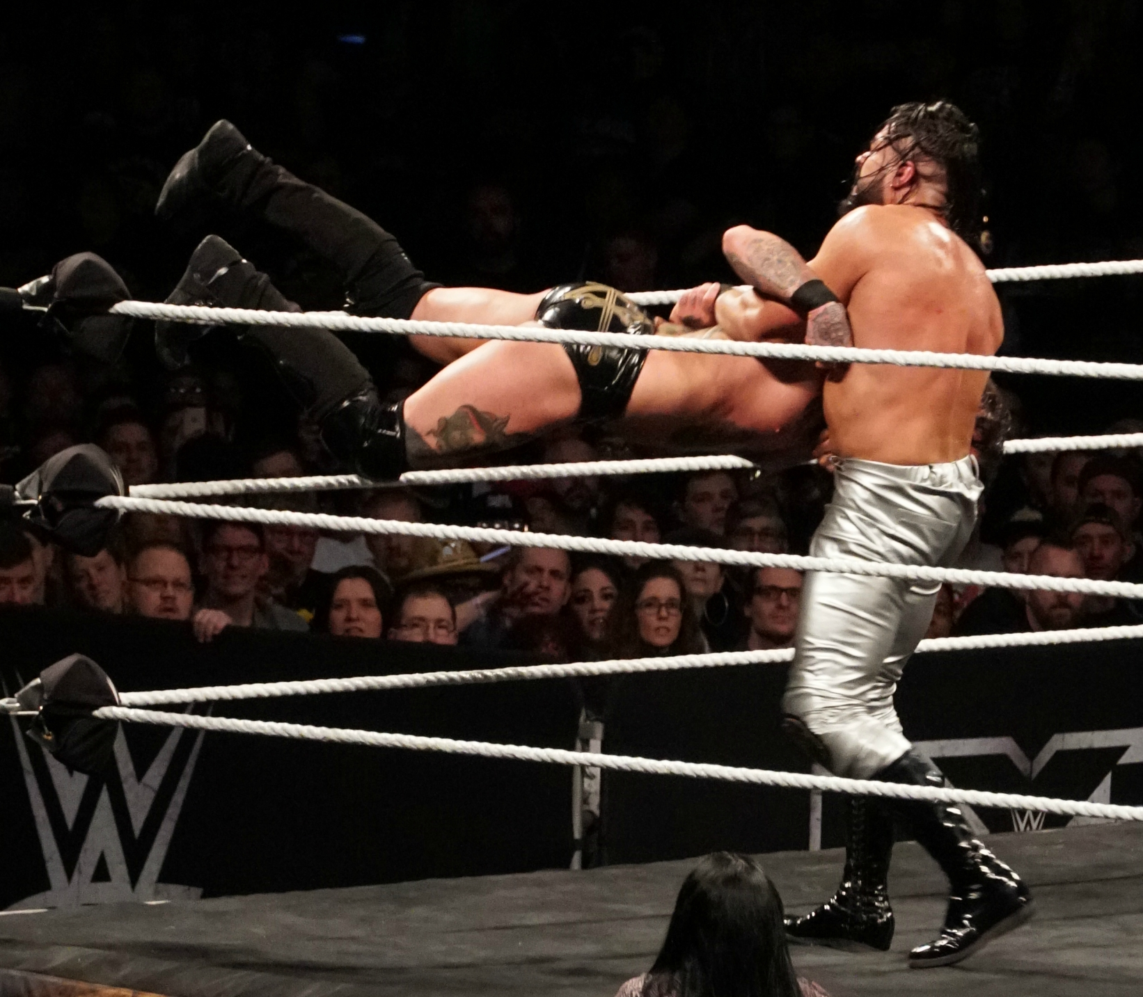 Andrade Cien Almas setting up to perform his finisher an Elevated Hammerlock DDT on Aleister Black at NXT TakeOver: New Orleans in April 7, 2018